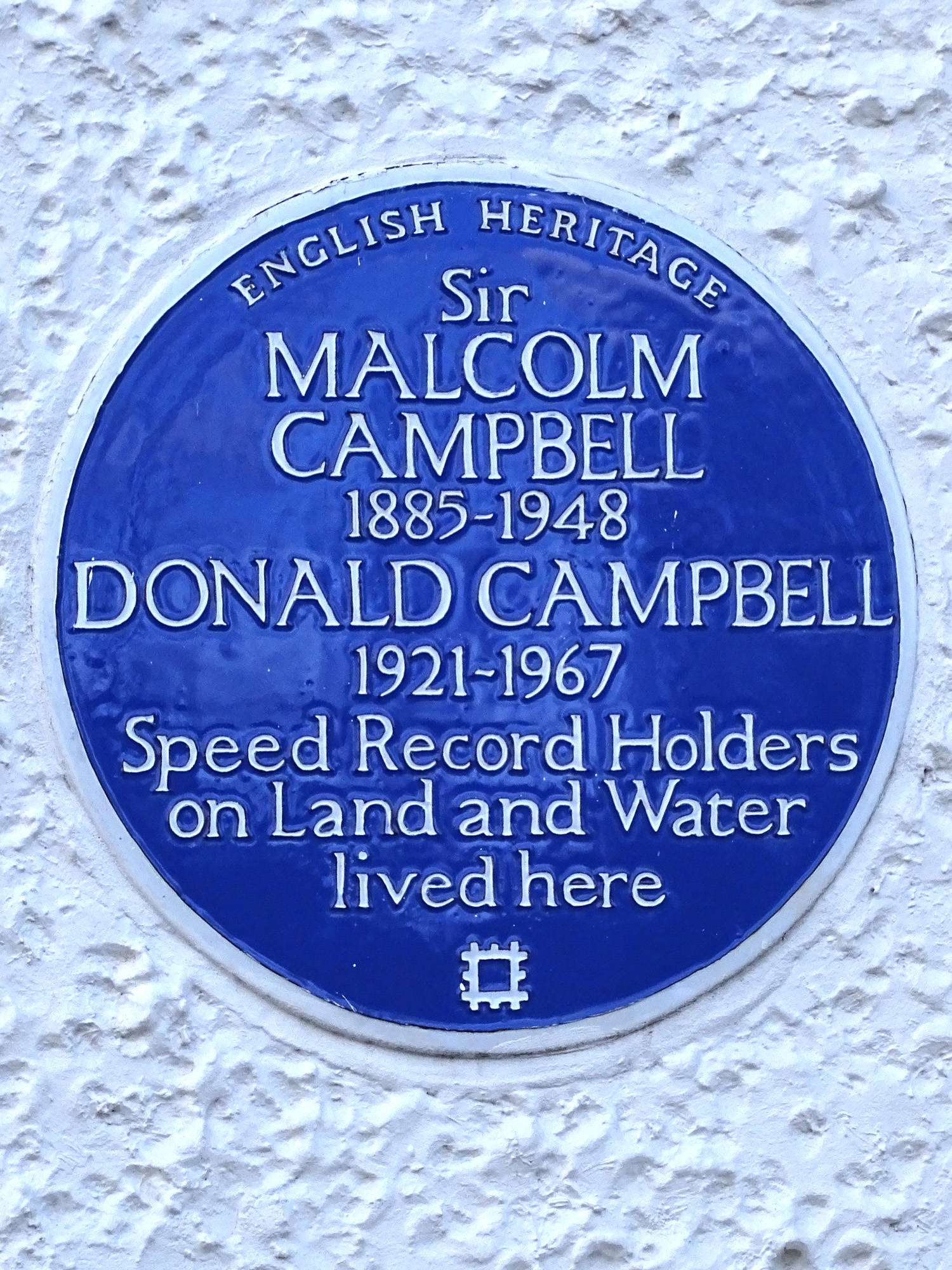 Blue plaque erected in 2010 by English Heritage at Canbury School, Kingston Hill, , Kingston-upon Thames KT2 7LN, Royal Borough of Kingston upon Thames